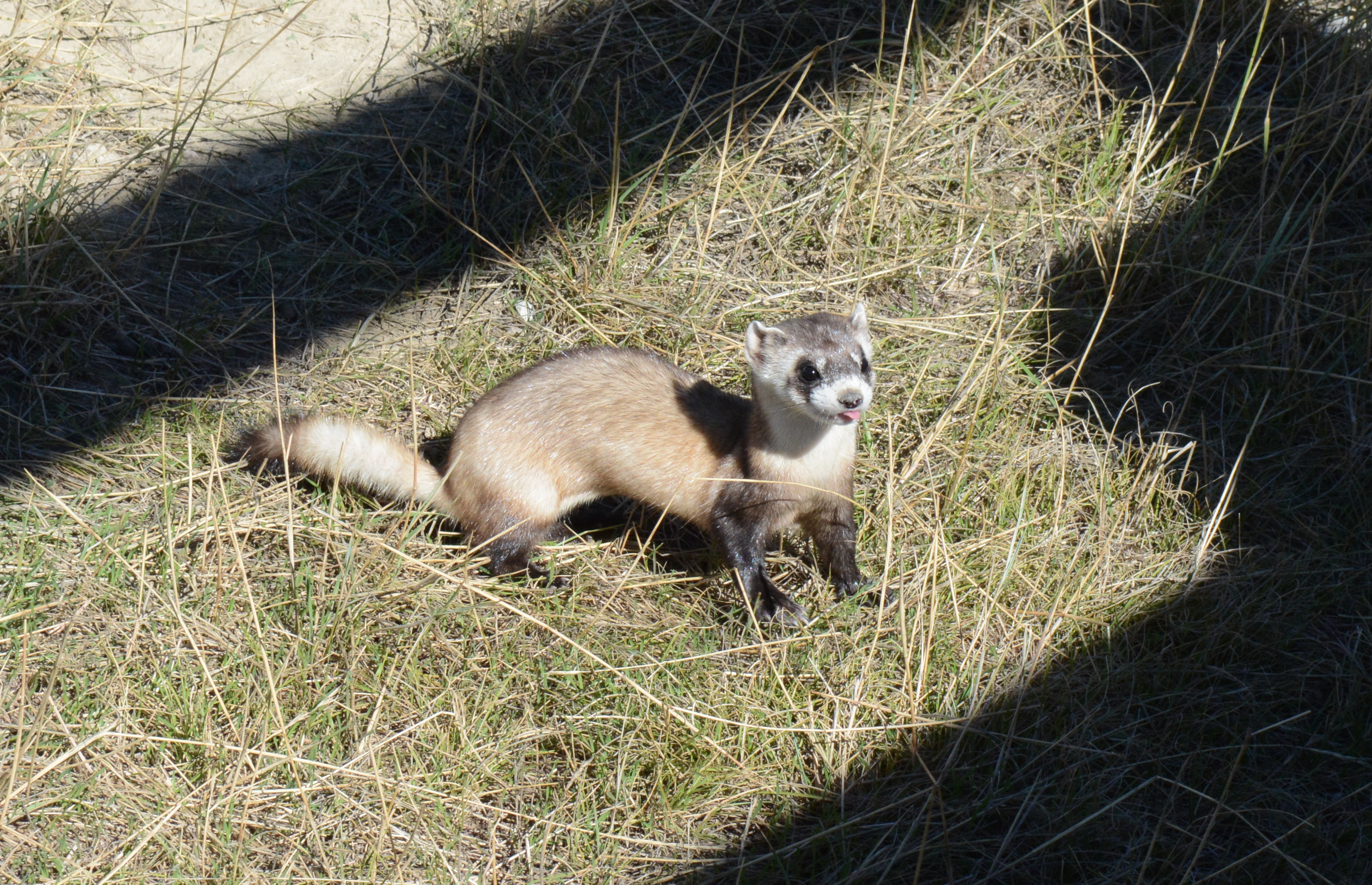 A black-footed ferret kit studies visitors from its outdoor preconditioning pen at the National Black-footed Ferret Conservation Center in Colorado. Photo Credit: Ryan Moehring / USFWS